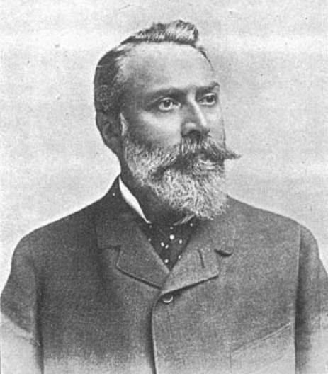 Photo of British engineer William Heerlein Lindley (1853 - 1917) The picture was stored as PNG file, not as JPG, to avoid further loss of data.